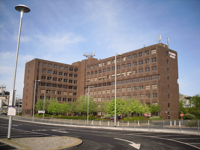 Fleming House, Cumbernauld